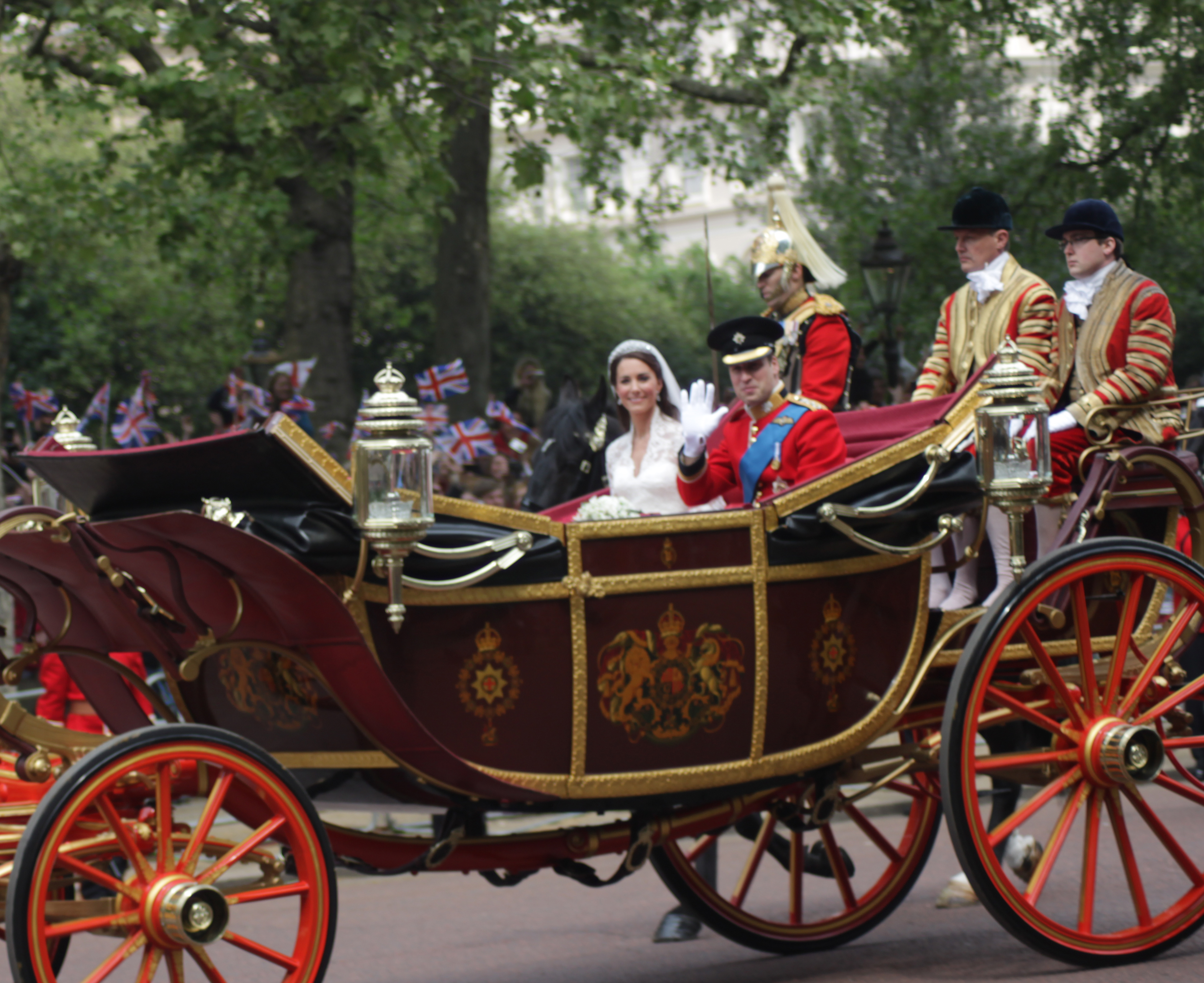 Wedding of Prince William of Wales and Kate Middleton